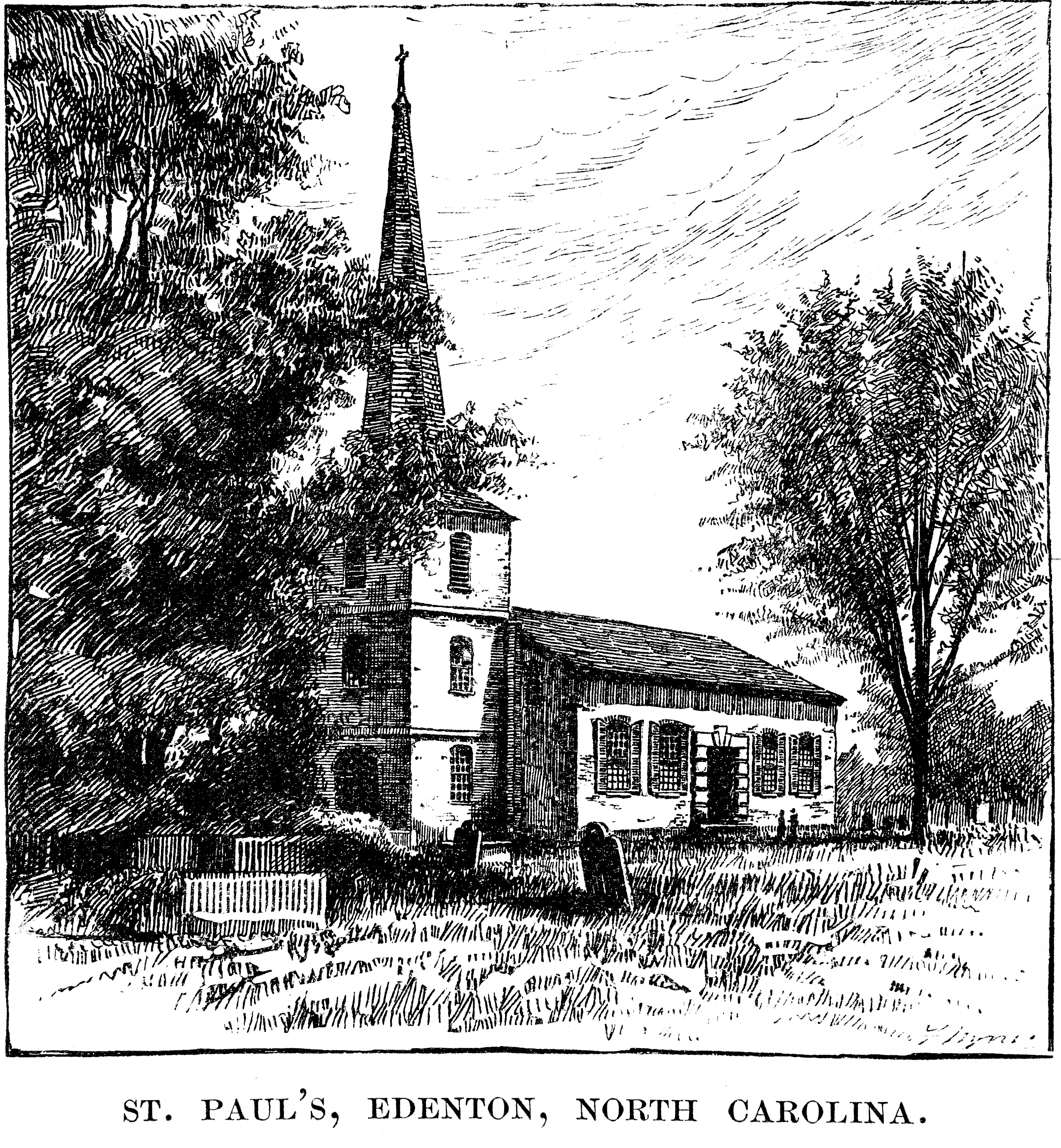 St. Paul's Episcopal Church is a historic Episcopal church located at W. Church and Broad Streets in Edenton, Chowan County, North Carolina. Source: The History: American Episcopal Church 1587-1883 by William Stevens Perry, Vol 1 (1885) page 634